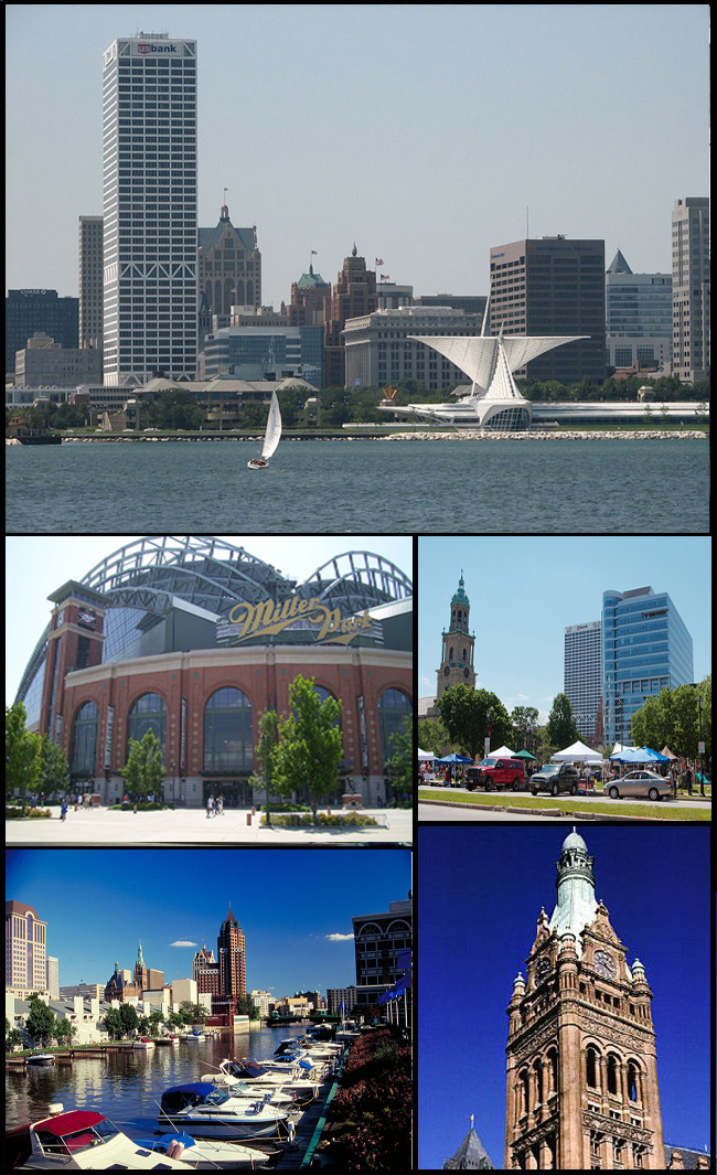 skyline comp, I made this image and am releasing it to the public. It is a standard composite picture of popular milwaukee sites how most major cities have Licensing For those checking sources backwards, here are 3 of the 5 images that make up the compilation photo: cc-by-2.0 (flickr) PD-self PD-USGov-EPA cc-by-sa-3.0 self cc-by-sa-2.5 self